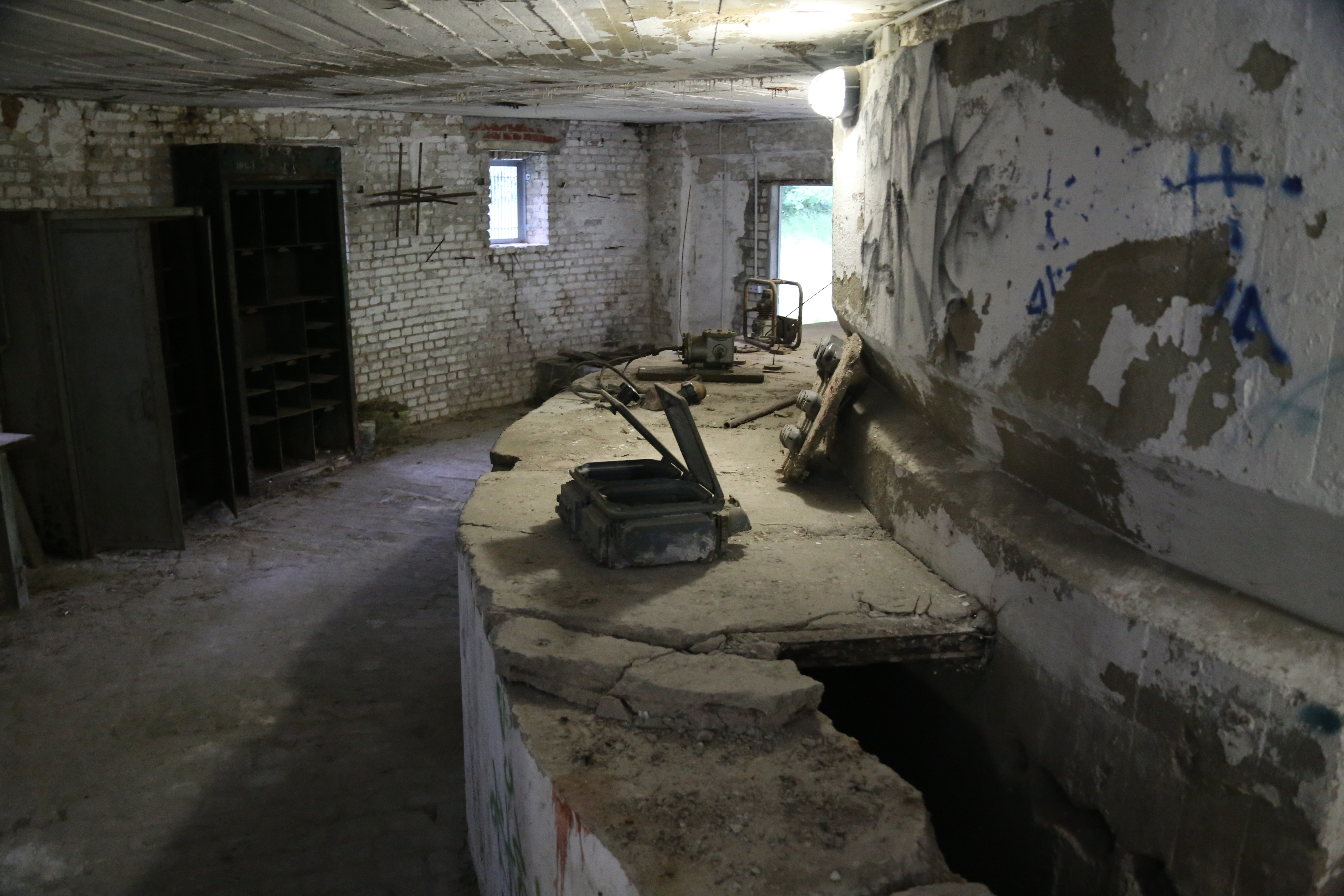 View from inside the Schwerbelastungskoerper depicting current state of neglect.